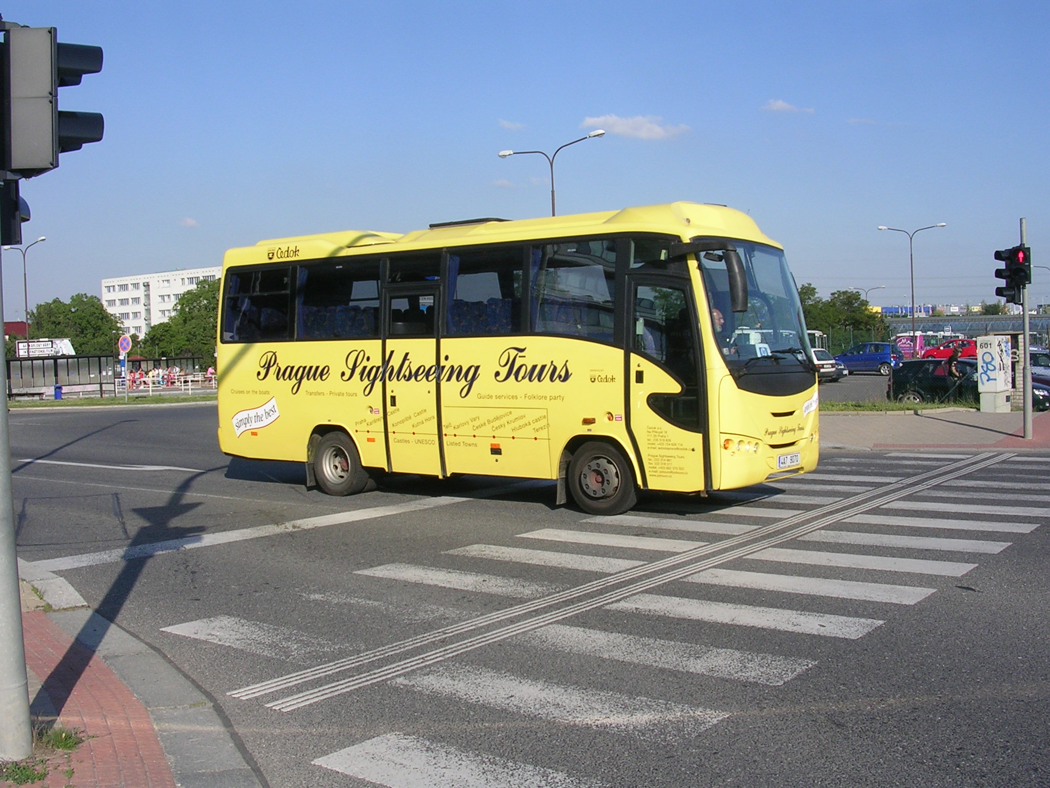 Třebonice, Prague, the Czech Republic. A bus near Zličín bus terminal. Irisbus Proxys made by Otoyol for Irisbus.